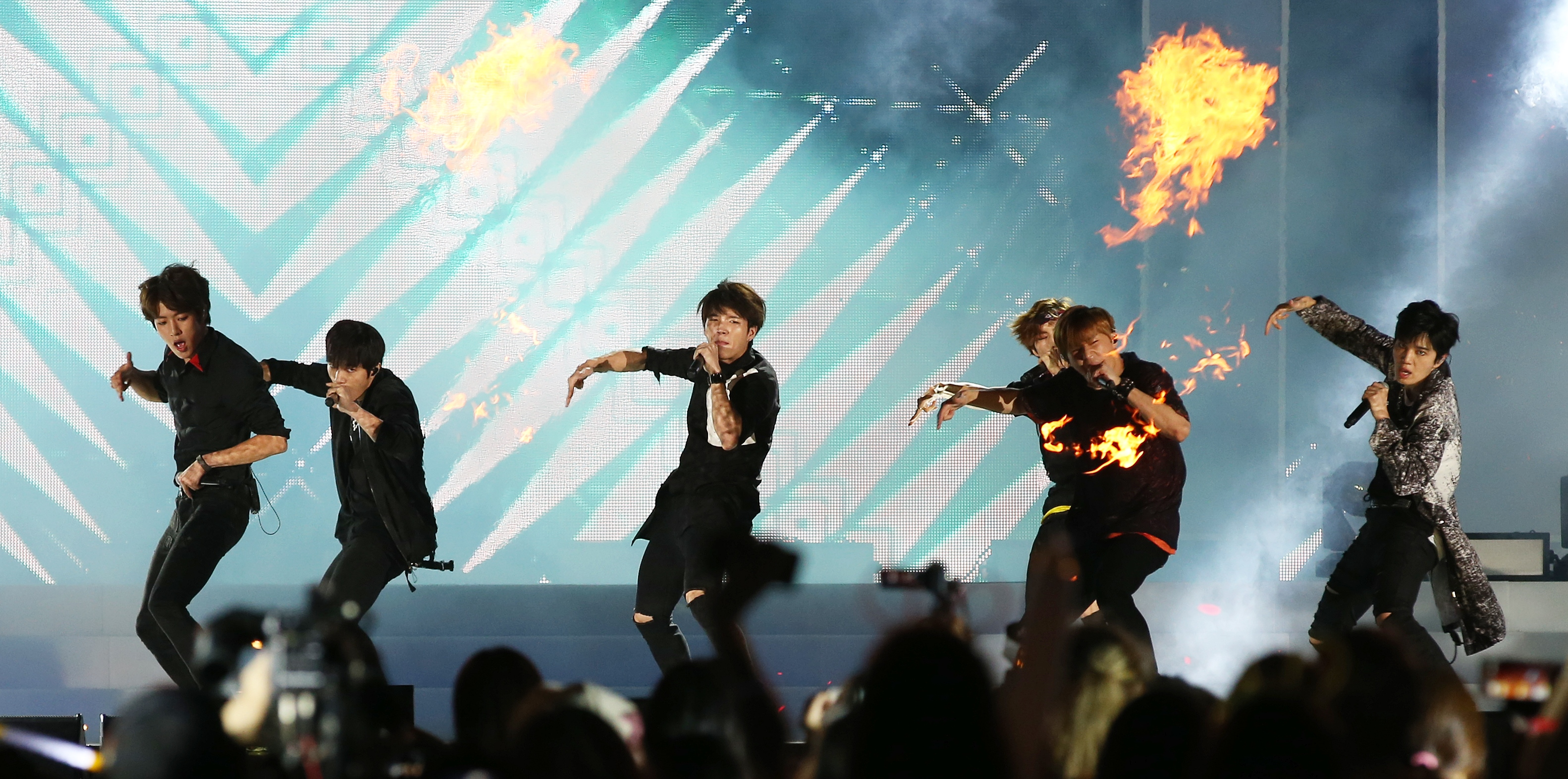 2015 Summer K-POP Festival August 4, 2015 Seoul Plaza. Ministry of Culture, Sports and Tourism. Korean Culture and Information Service ( Photographer : Jeon Han The photograph may not be used in any type of commercial, advertisement, product or promotion that in any way suggests approval or endorsement from the government of the Republic of Korea.-------------------------------------------------썸머 K-POP 페스티벌2015-08-04문화체육관광부해외문화홍보원코리아넷전한